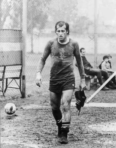 Roberto Mouzo at a Boca Juniors training.